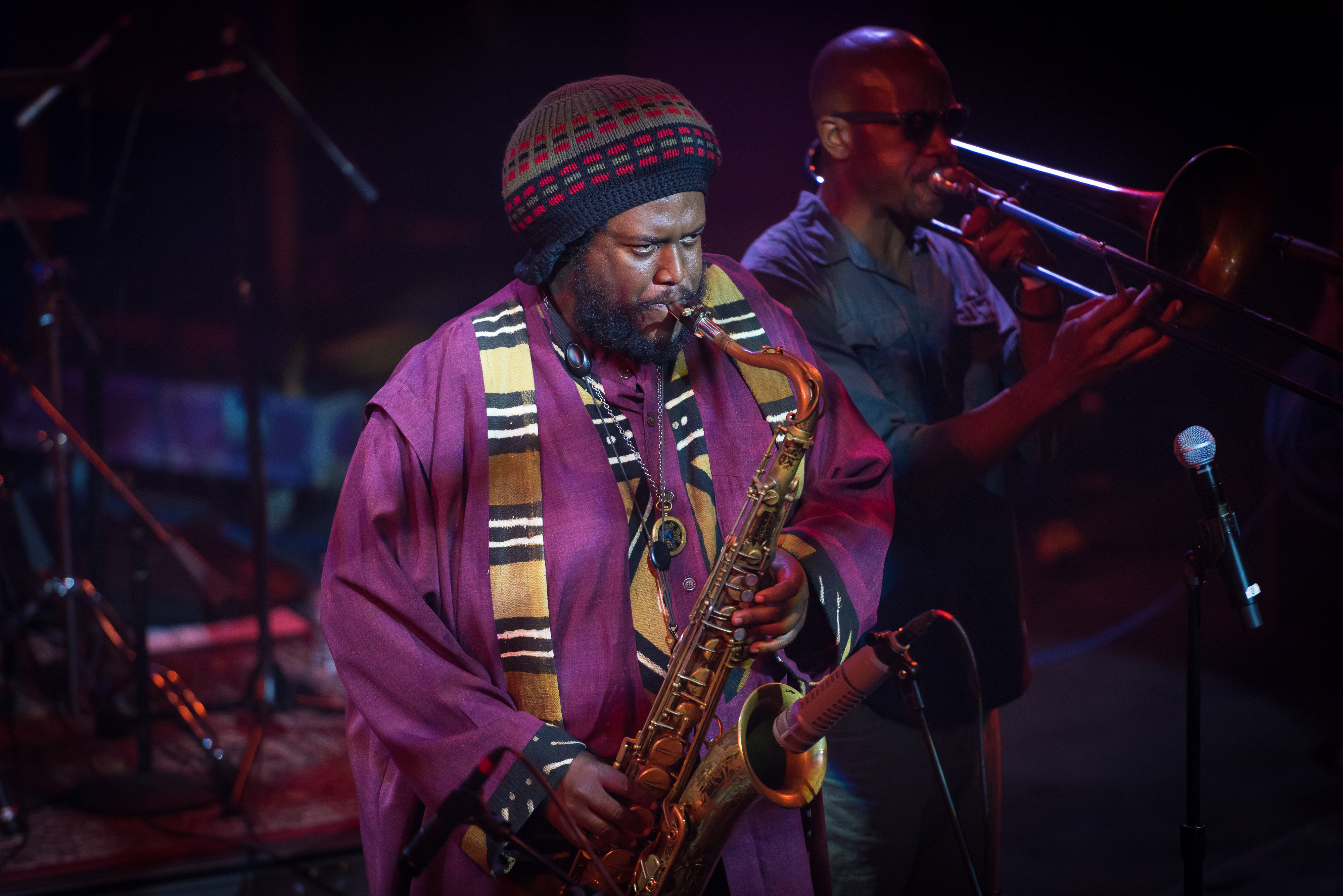 Kamasi Washington performing at BRIC JazzFest Marathon on October 15, 2015 in Brooklyn, New York